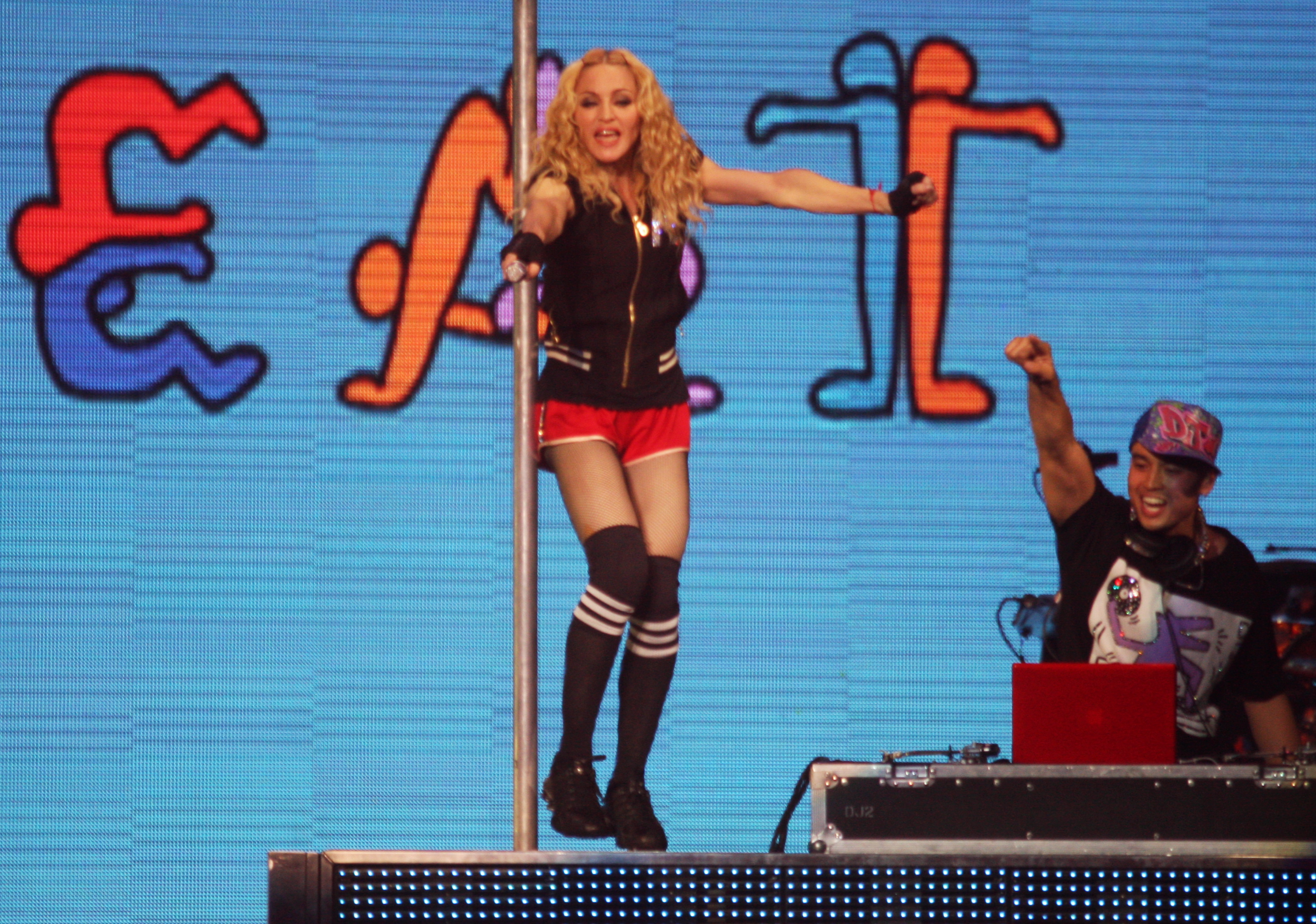 Madonna concert